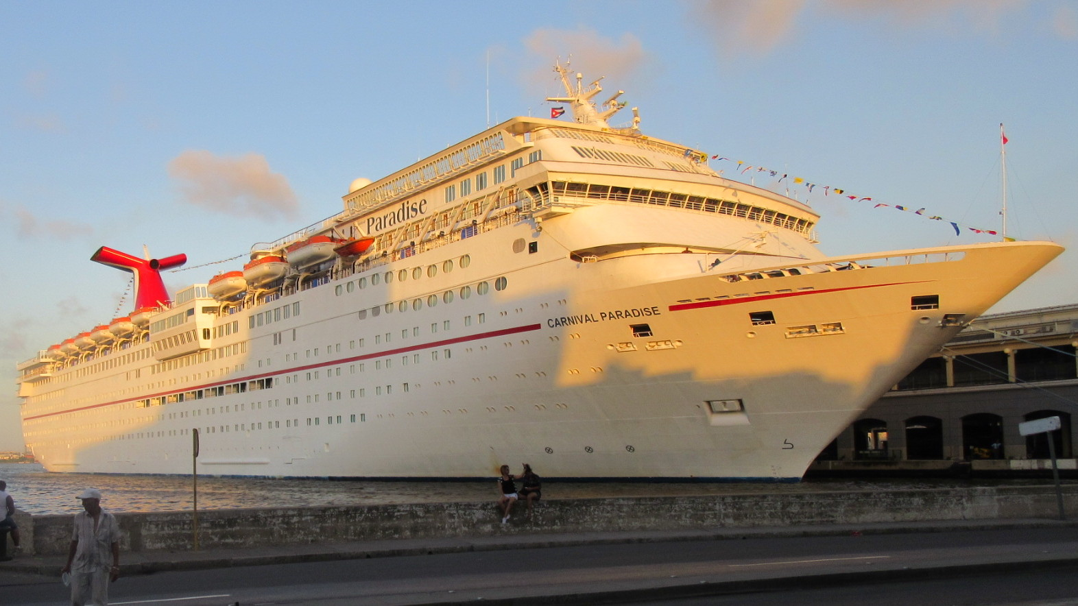 Inaugural visit of Carnival Paradise in Havana, Cuba